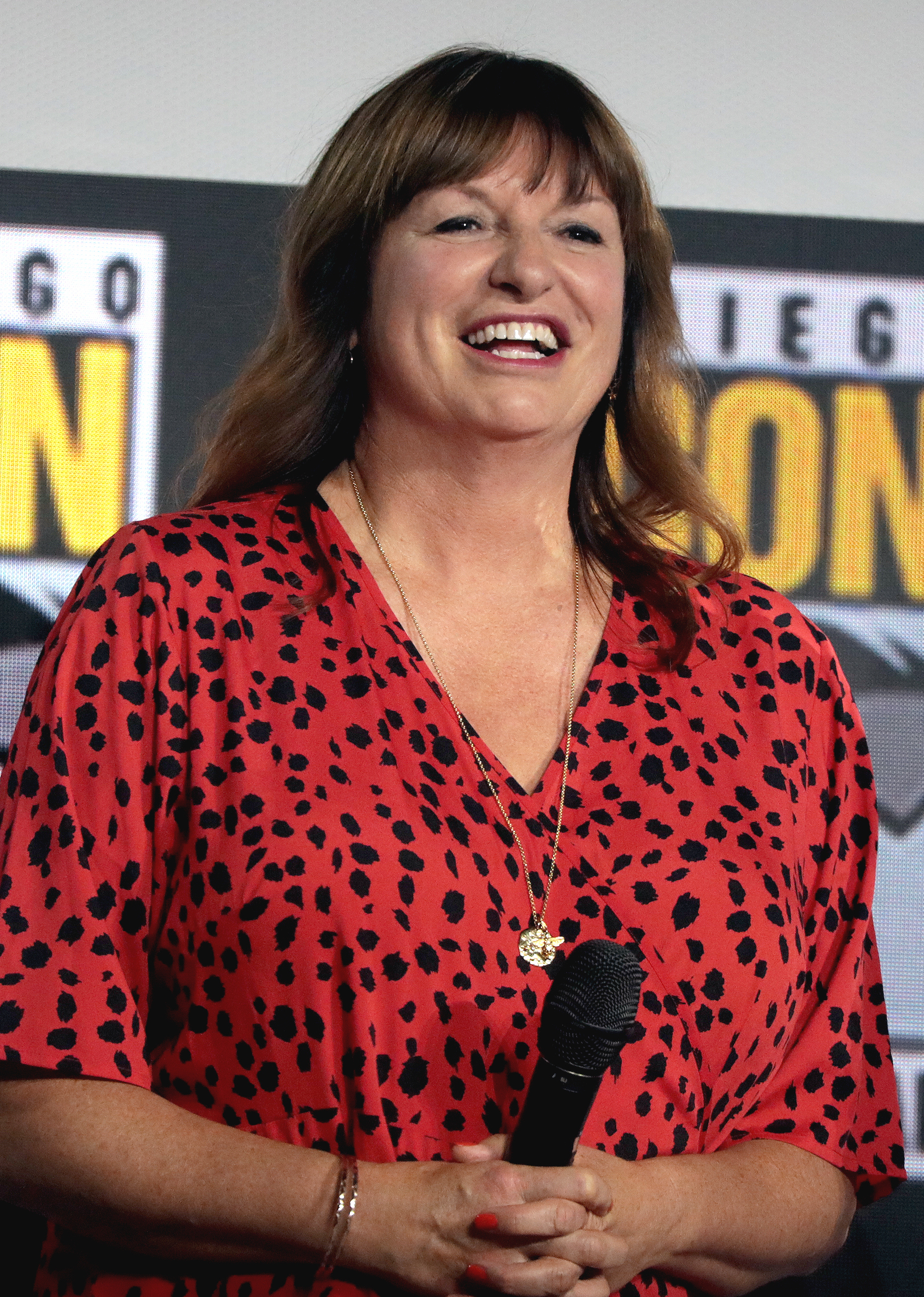 Cate Shortland speaking at the 2019 San Diego Comic-Con International in San Diego, California.